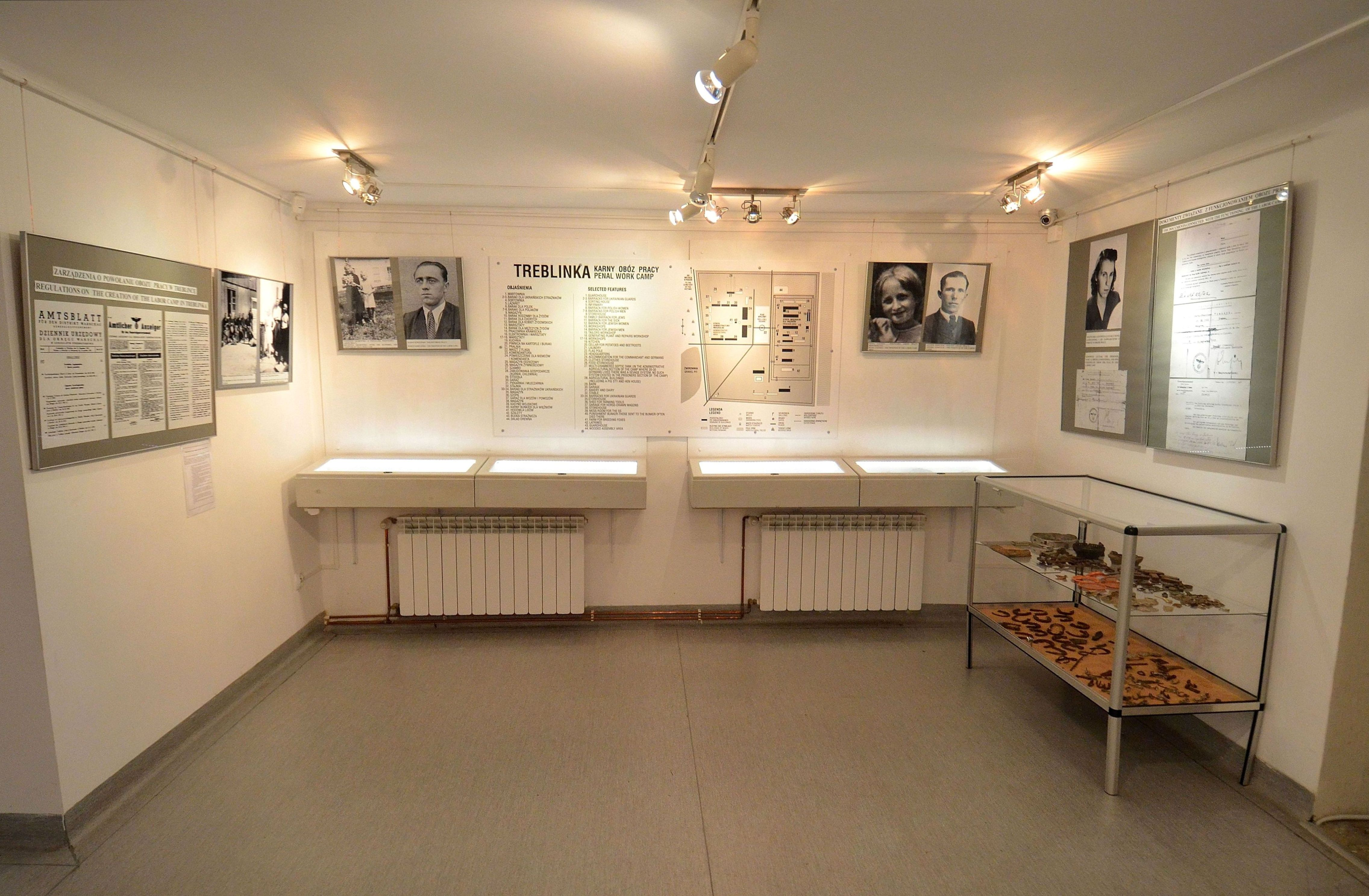 Museum of Fight and Martyrdom in Treblinka